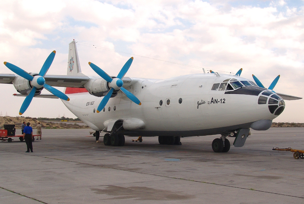 Nice name for an airplane! It looks like it's been loaded all the way so the crew have to access the cockpit through the emergency escape hatch open underneath.